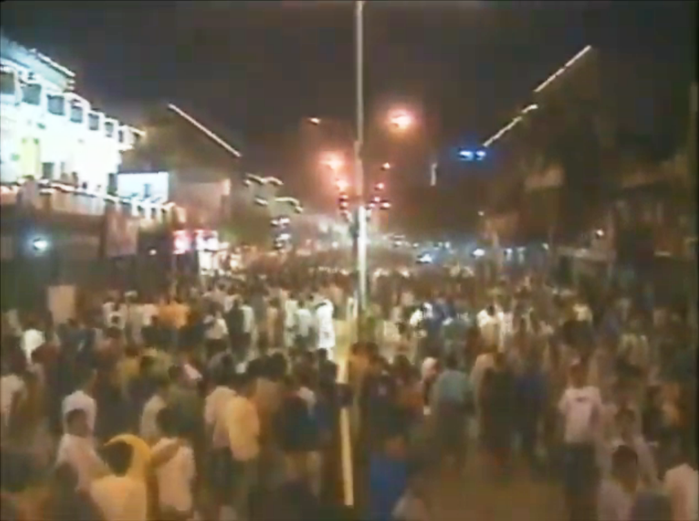 File Photo